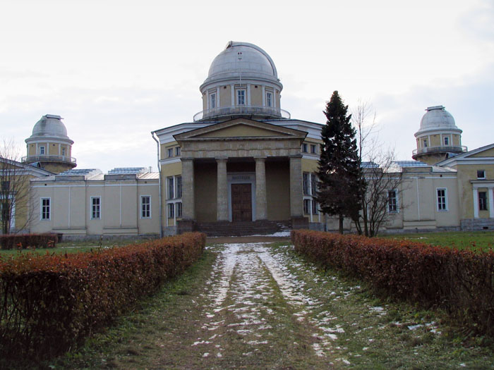 The Pulkovo Observatory.